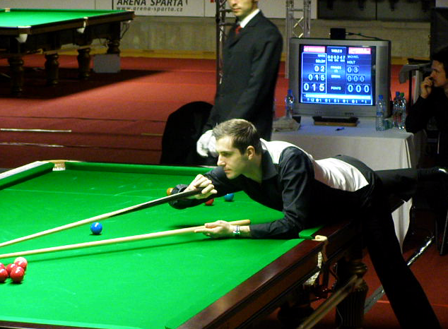 Mark Selby, English snooker professional